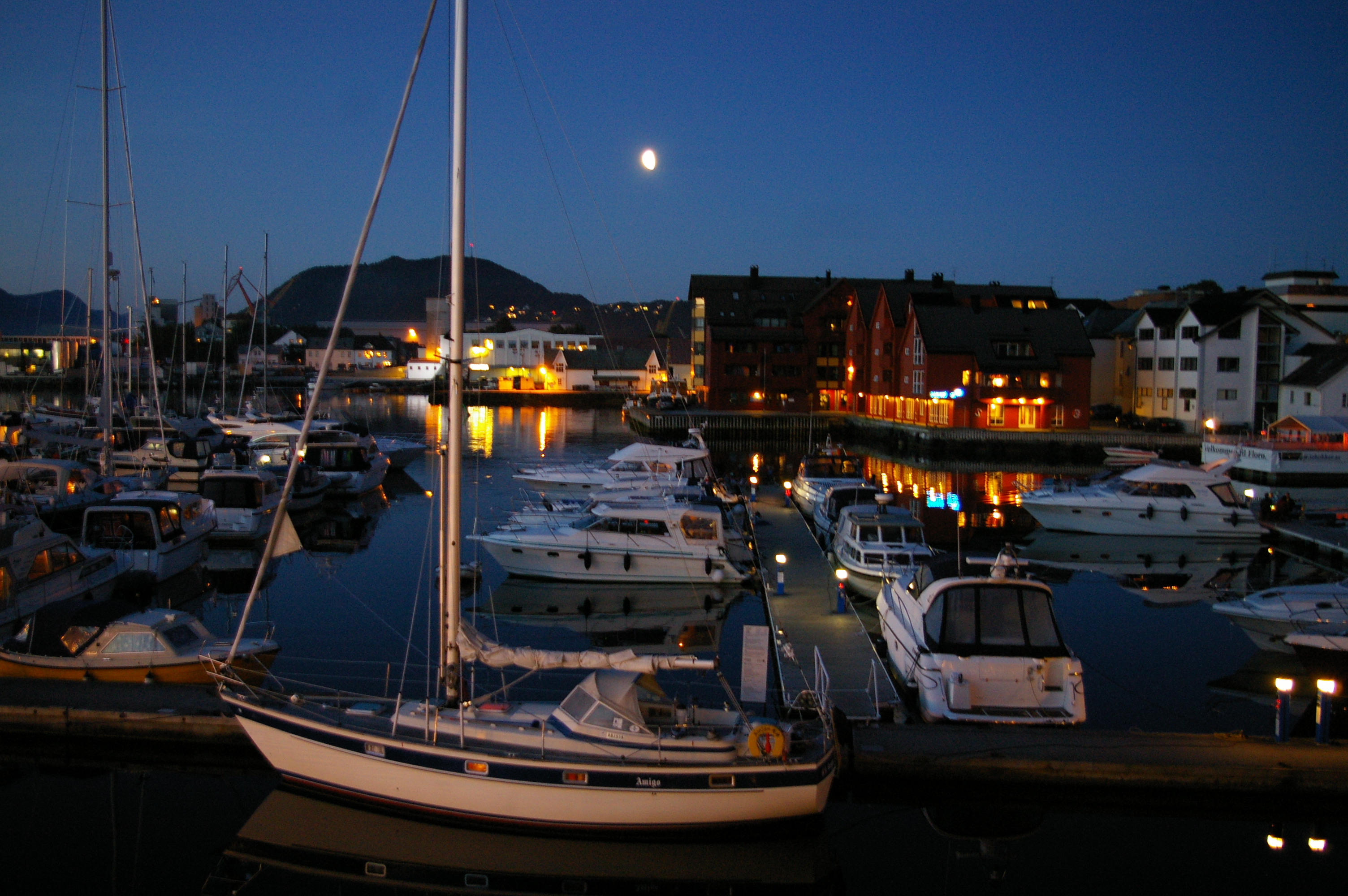 Florø by night. Sogn og Fjordane, Norway.